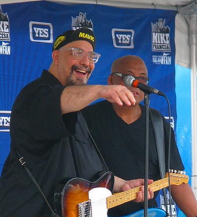 Pat DiNizio and Severo "The Thrilla" Jornacion of the Smithereens performing at a WFAN event at Bar Anticipation in Belmar, NJ on August 24, 2012.